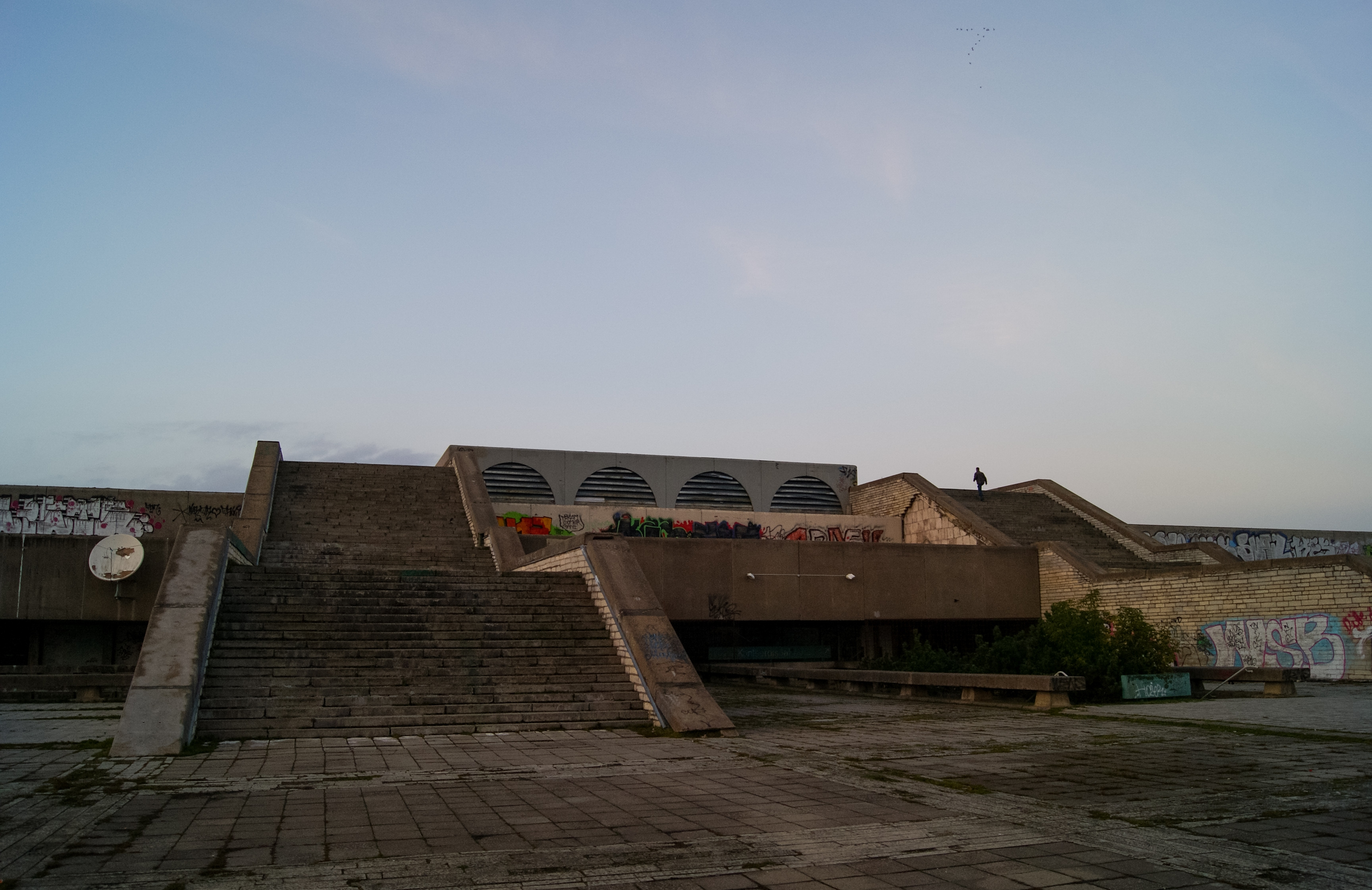 The Linnahall soviet building